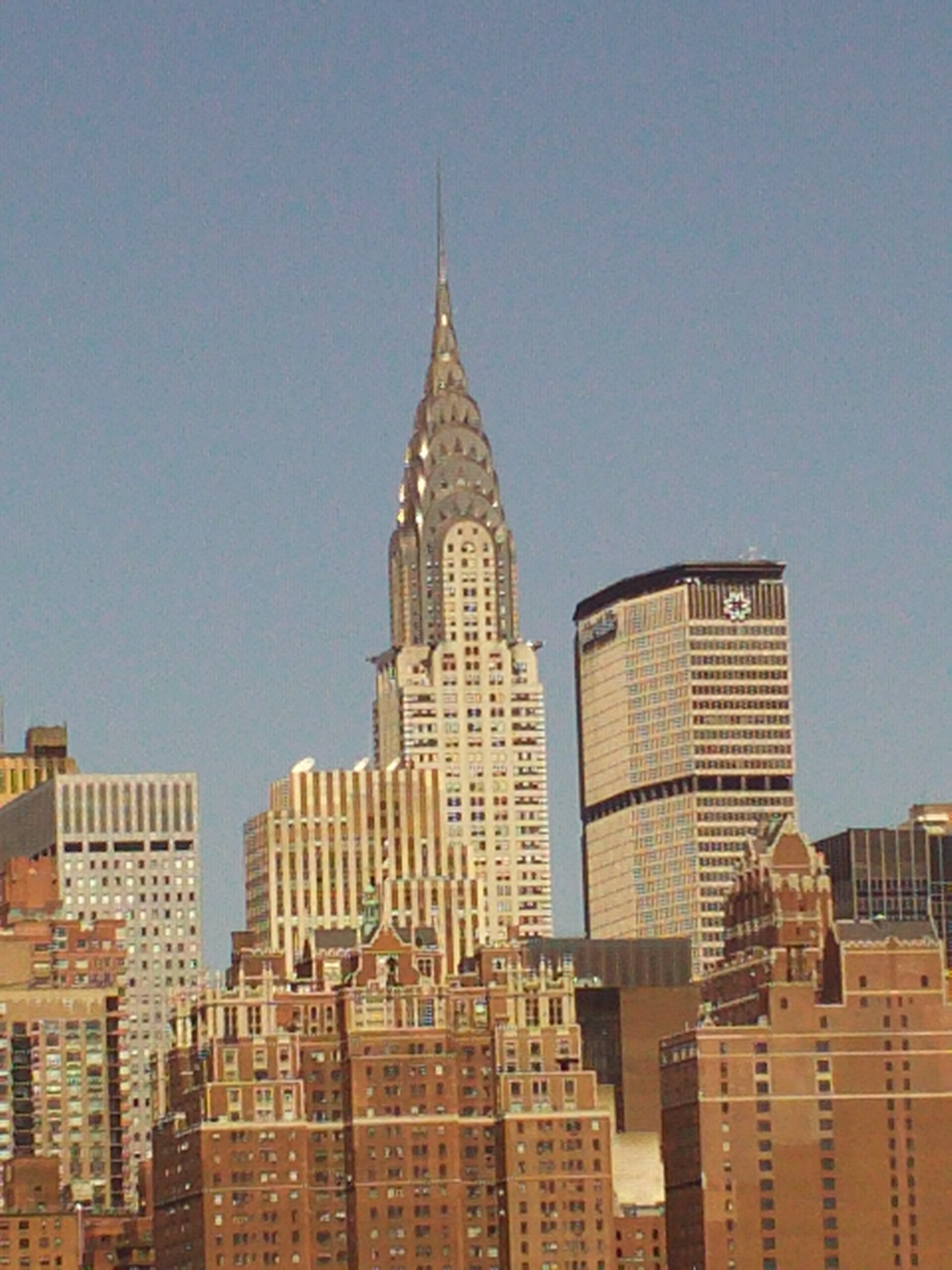 Chrysler building, one of the best known skyscrapers in New York, Manhattan.